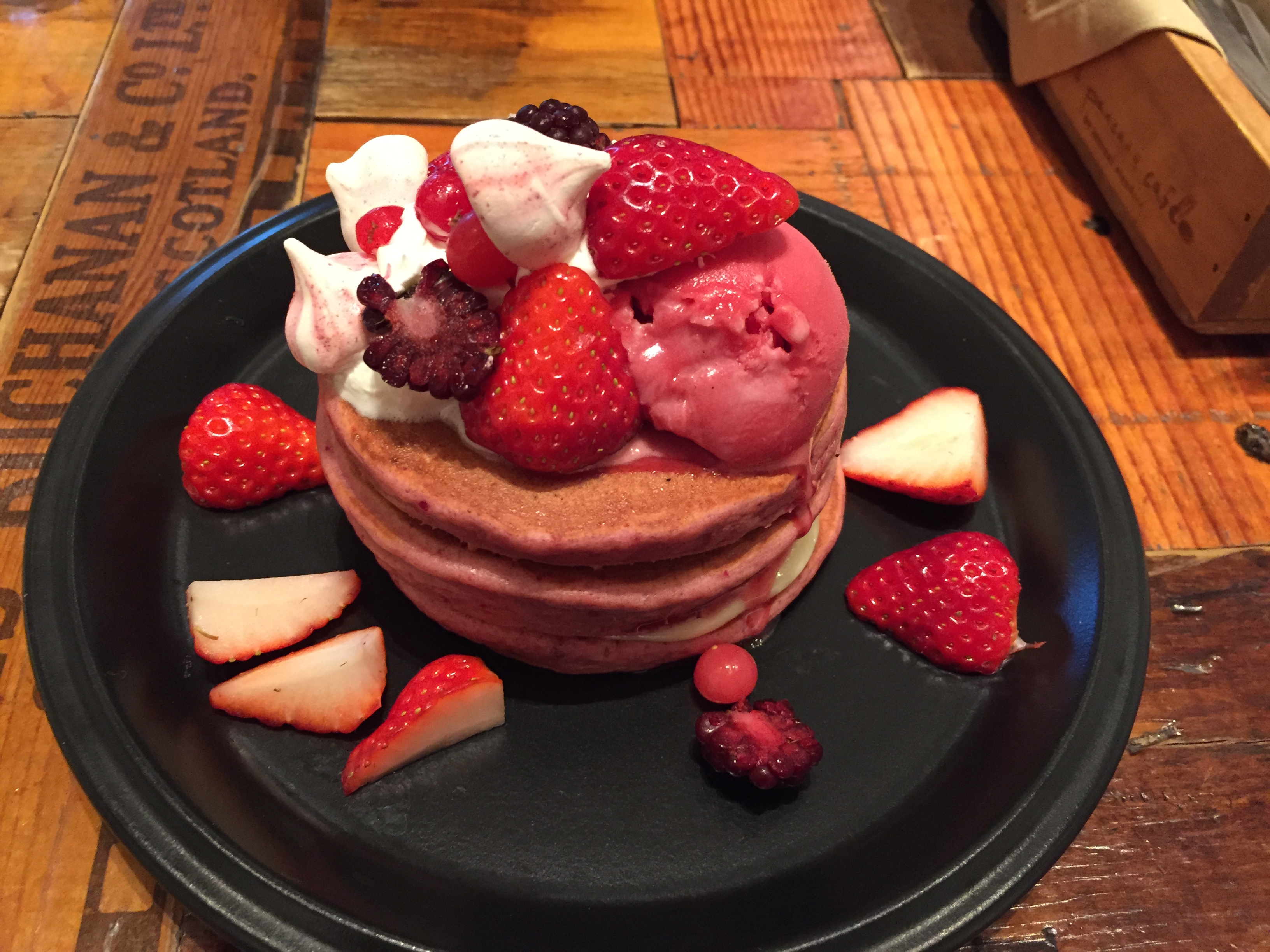 Red velvet pancake (J.S. Pancake Cafe, Nakano, Tokyo)